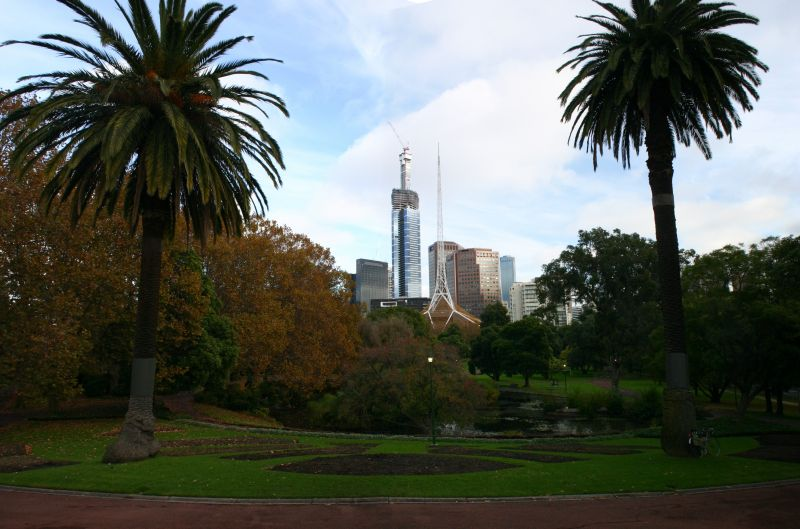 Queen Victoria Gardens view from Queen Victoria statue Photo by Takver taken in 2005.